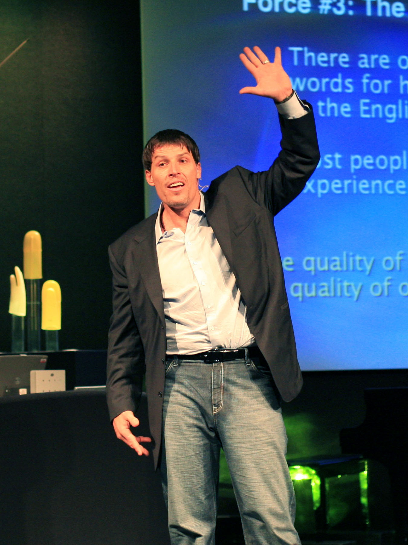 Author, life coach, and motivational speaker Tony Robbins. Photo taken at TED Convention in 2006.